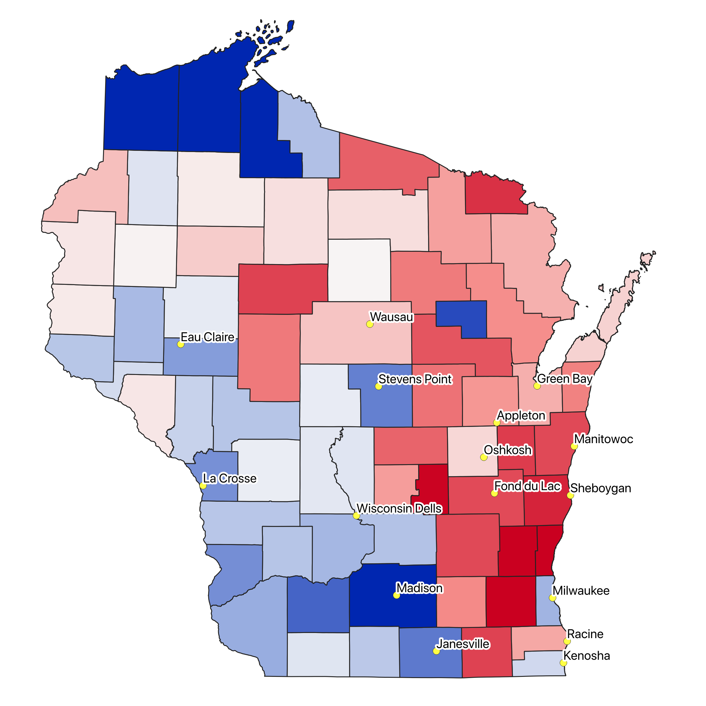 Map of results by county for the 2011 Wisconsin Supreme Court Election